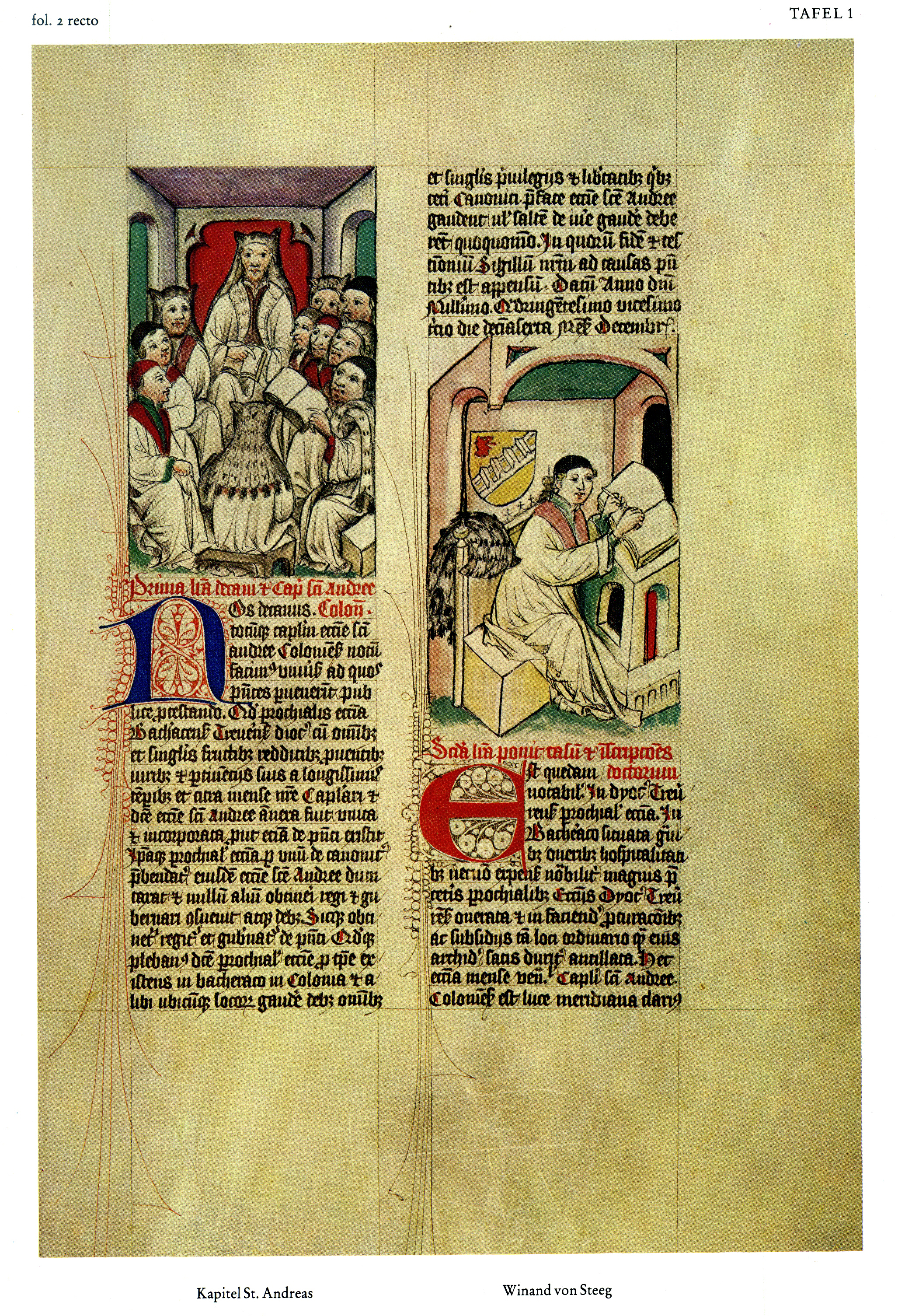 Reproduction of a painting by Wynandus de Stega 1426